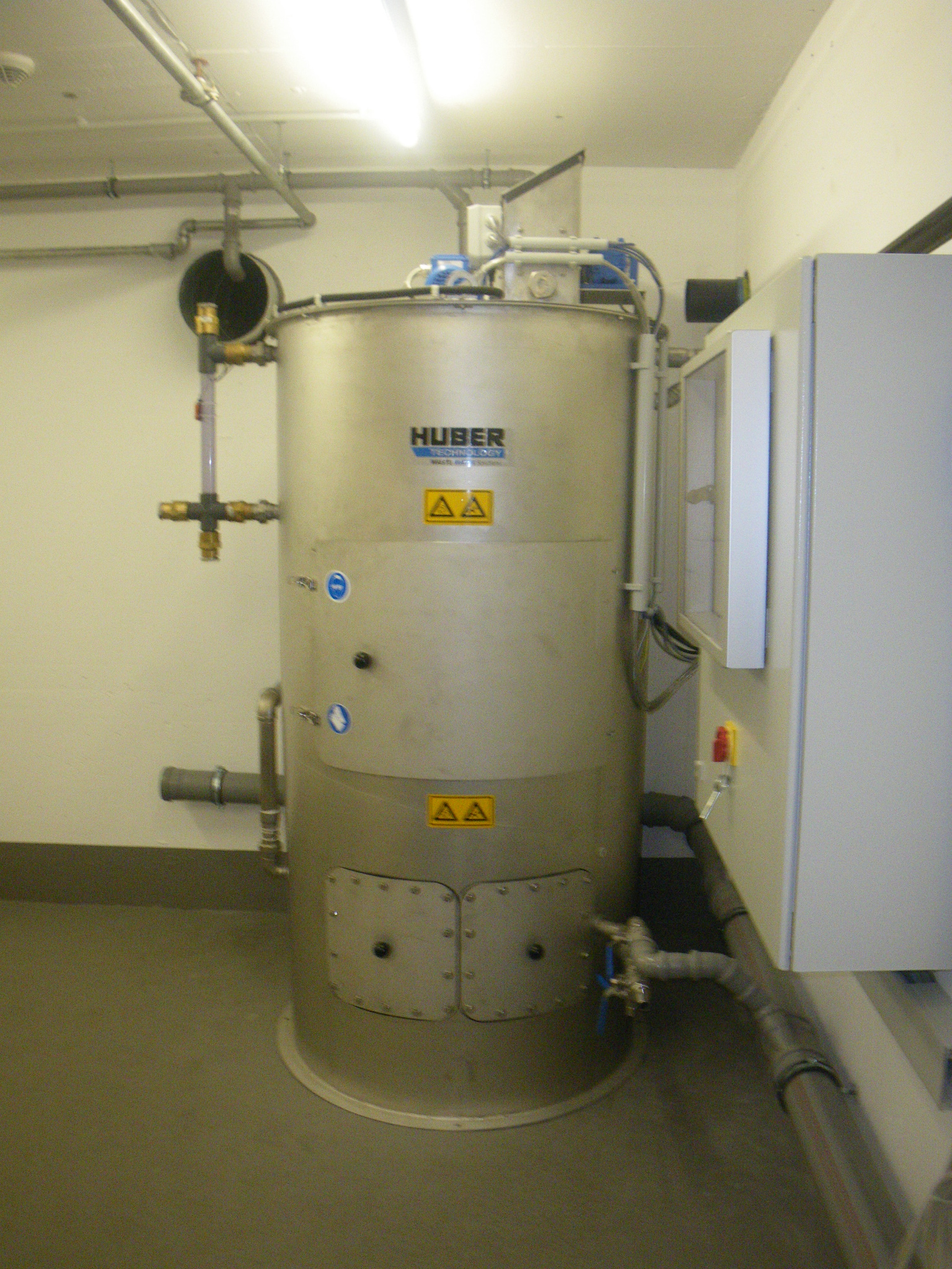 Front view of the MAP (i.e. magnesium ammonium phosphate NH4MgPO4) precipitation reactor. The reator is installed in the office building in Eschborn within the project SANIRESCH. The picture was taken before usage started. (Photo: Martina Winker, May 2010.)